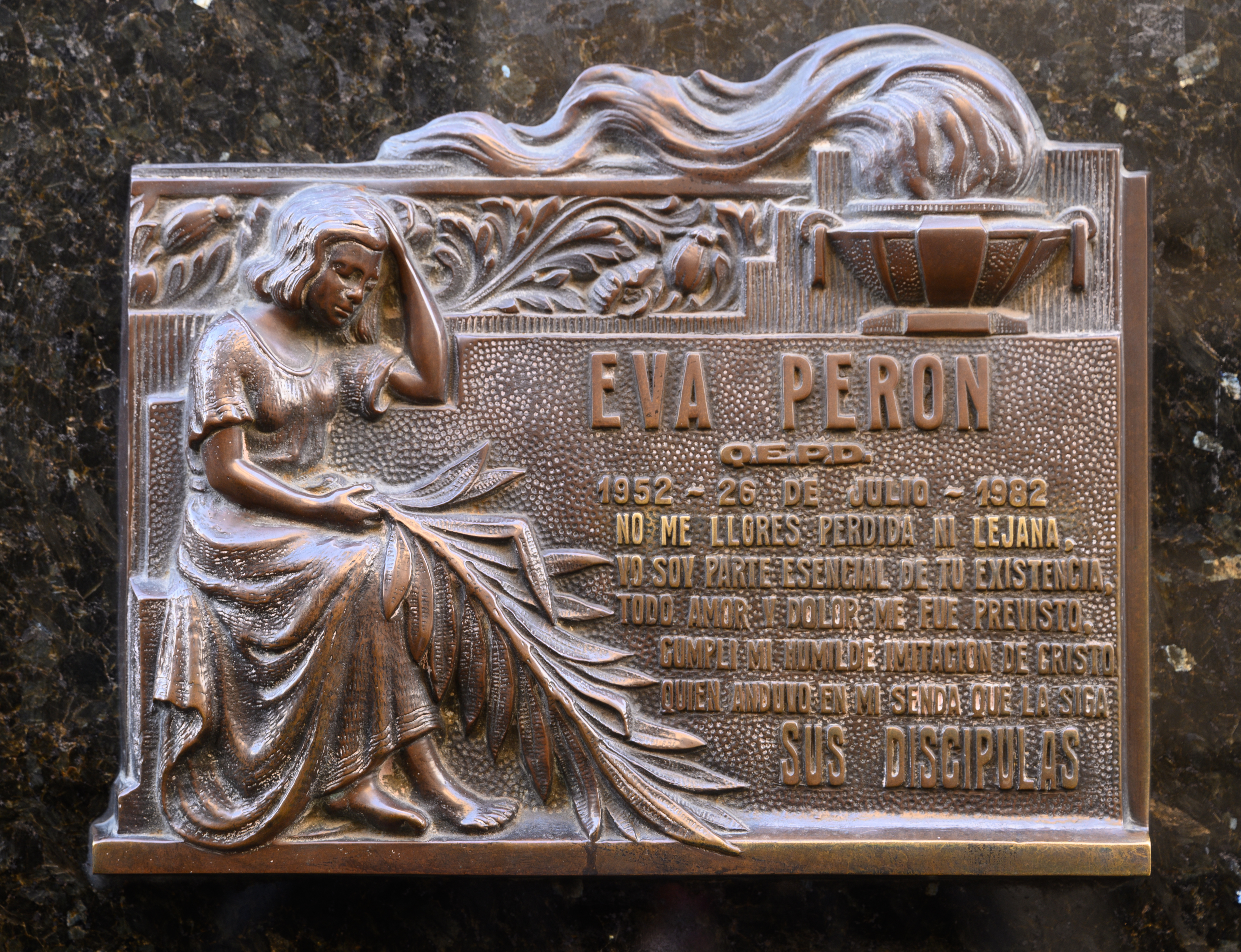 Plaque for Evita Peron on the Recoleta Cemetry in Buenos Aires/Argentina